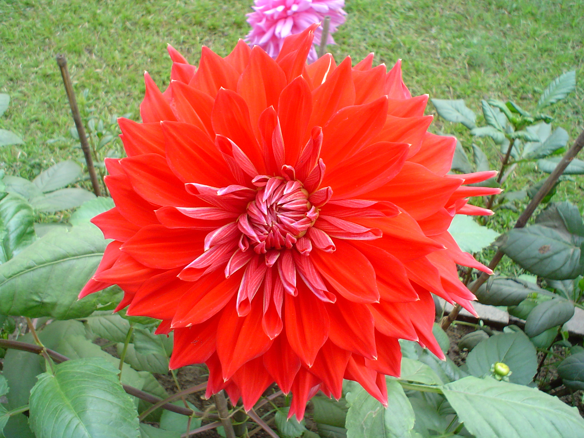 Common seasonal flower of India. Photograph taken at Kolkata.